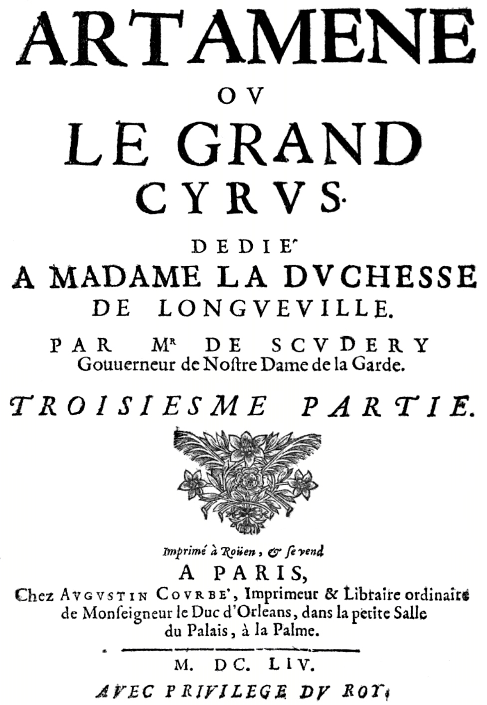 Title page from Artamène, ou le grand Cyrus (1649-1653) by Madeleine de Scudéry ( (1607-1701)